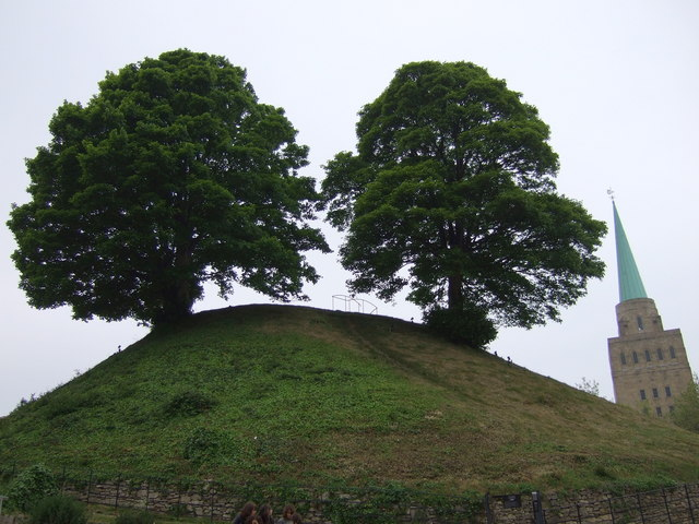 Oxford Castle Motte, with the library tower and spire of Nuffield College on the right